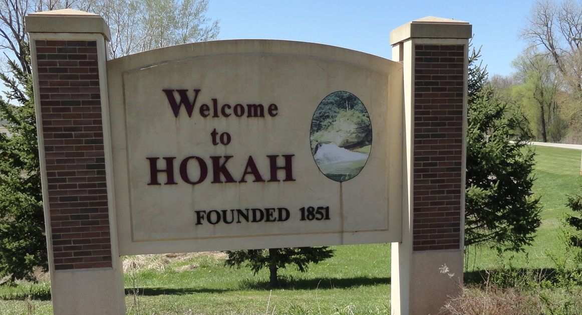 Hokah, Minnesota welcome sign - April 2015